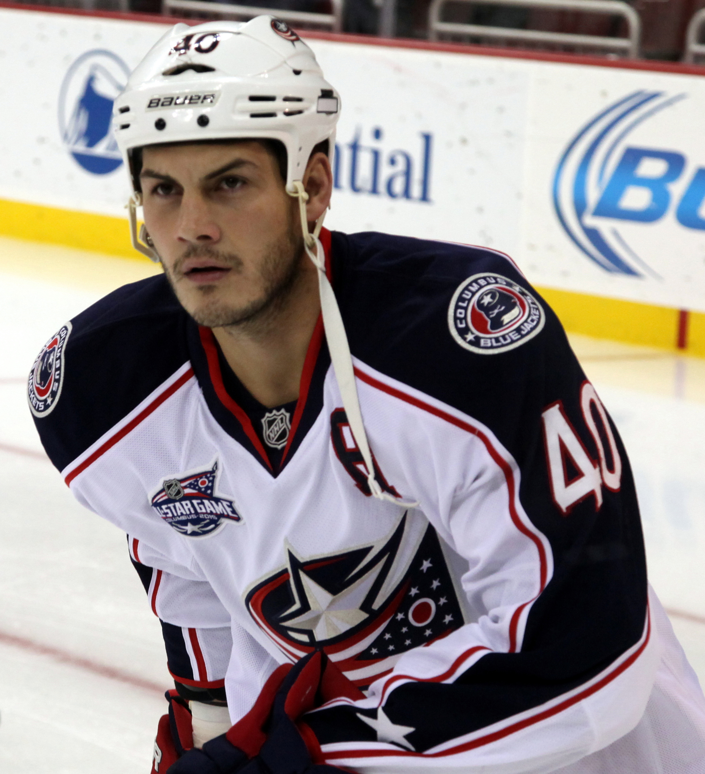 Jared Boll in November 2014.